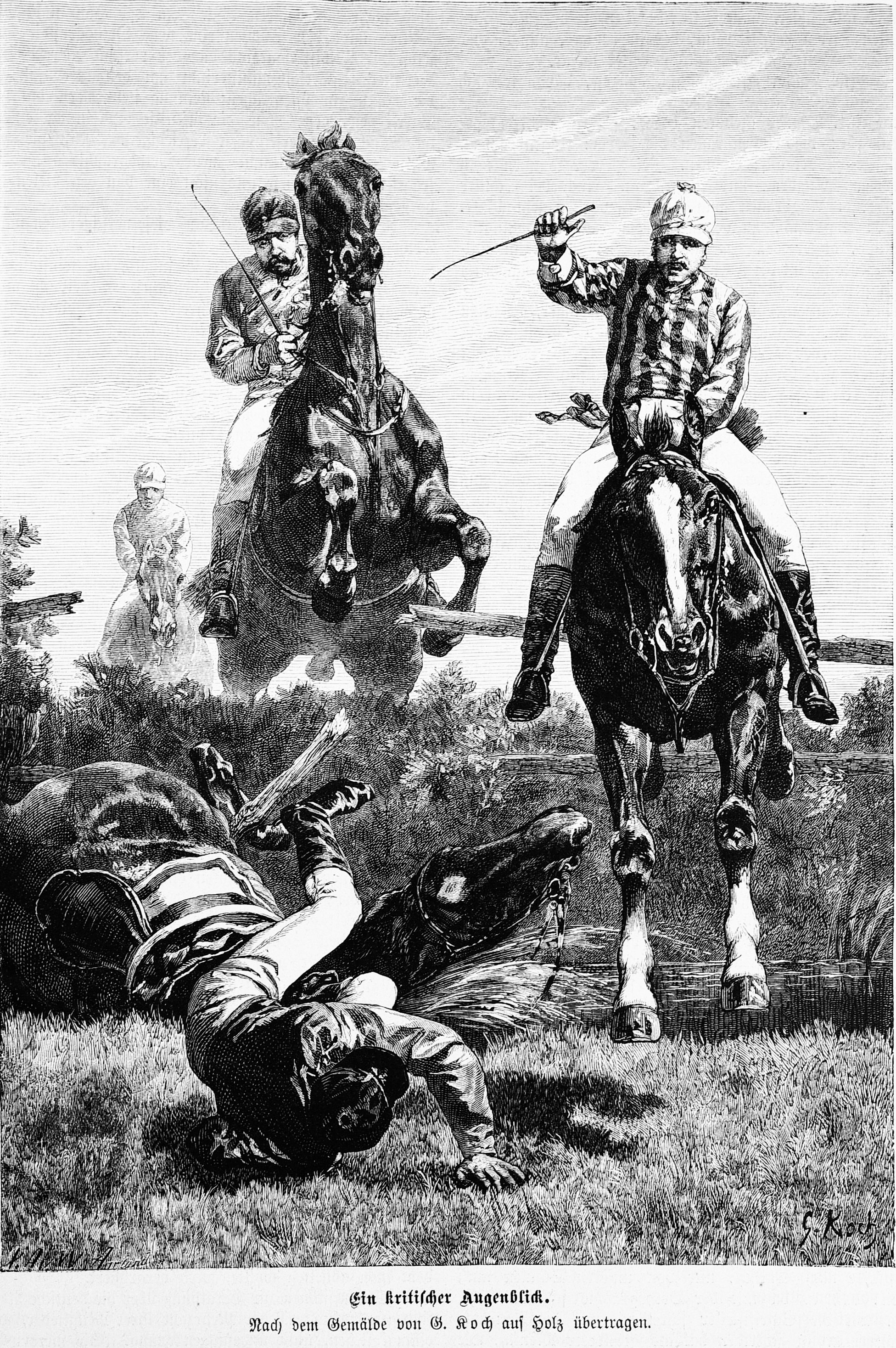 caption: "Ein kritischer Augenblick.Nach dem Gemälde von G. Koch auf Holz übertragen."